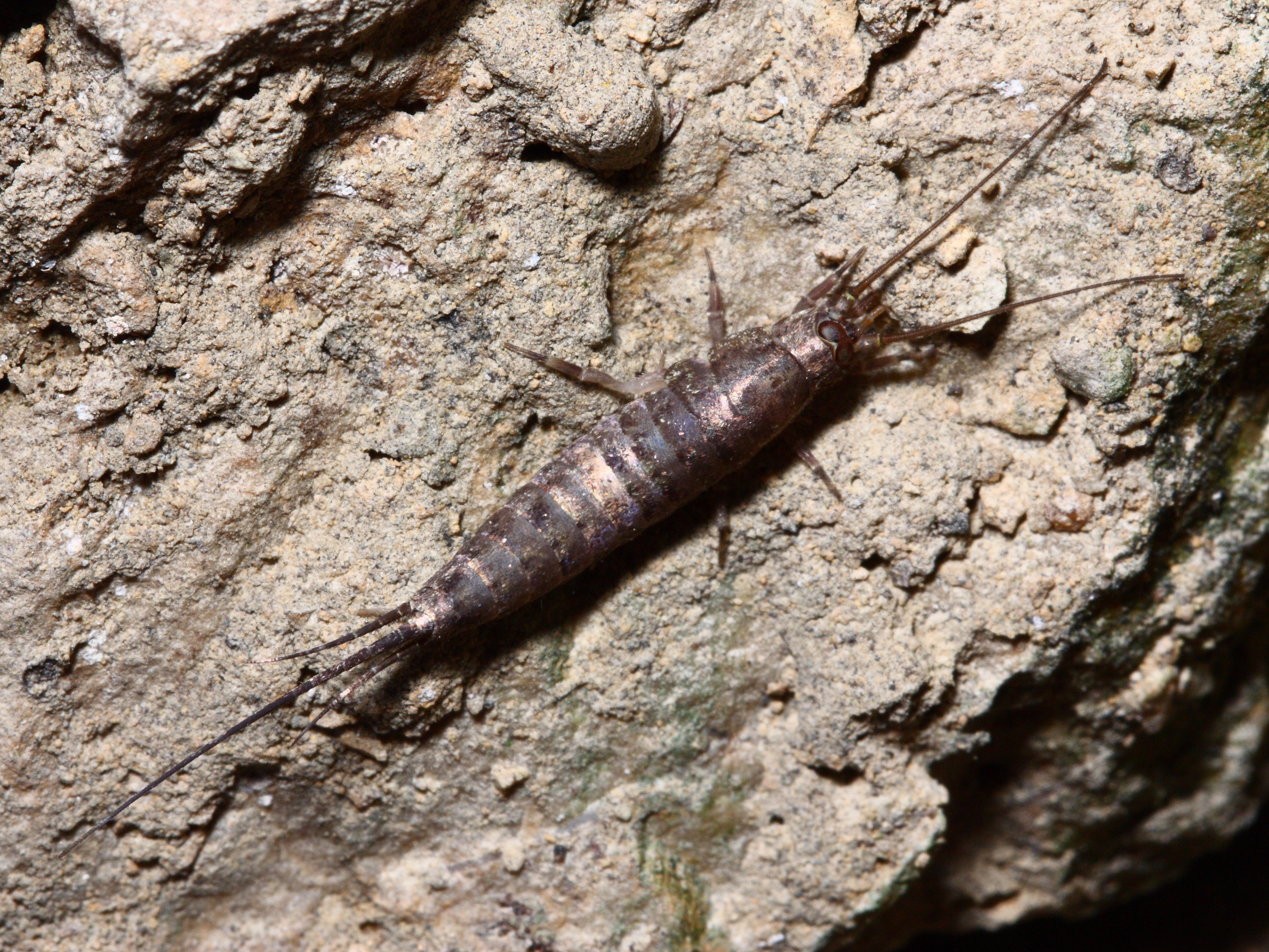 Rock Bristletail on Ordovician sedimentary rocks, Lowden Stae Park, Ogle County, Illinois.